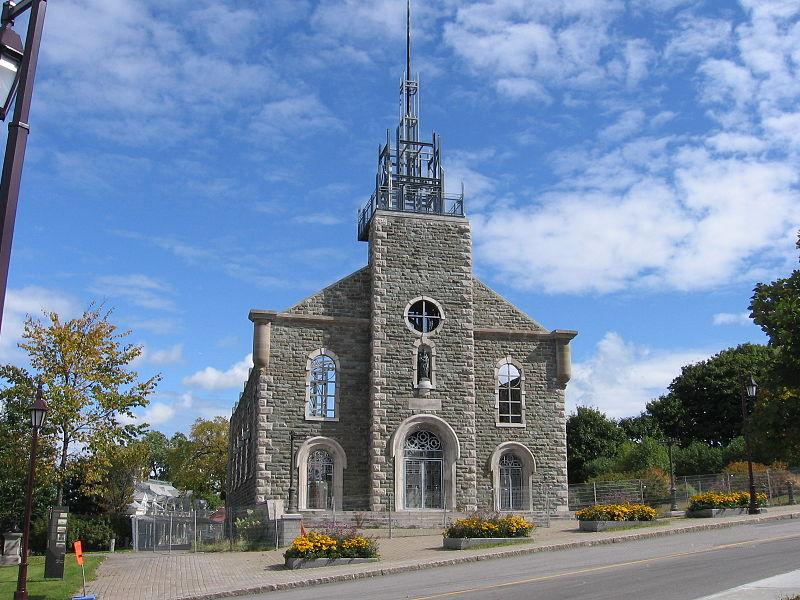 Church of Sainte-Foy to commemorate the Battle of Sainte-Foy